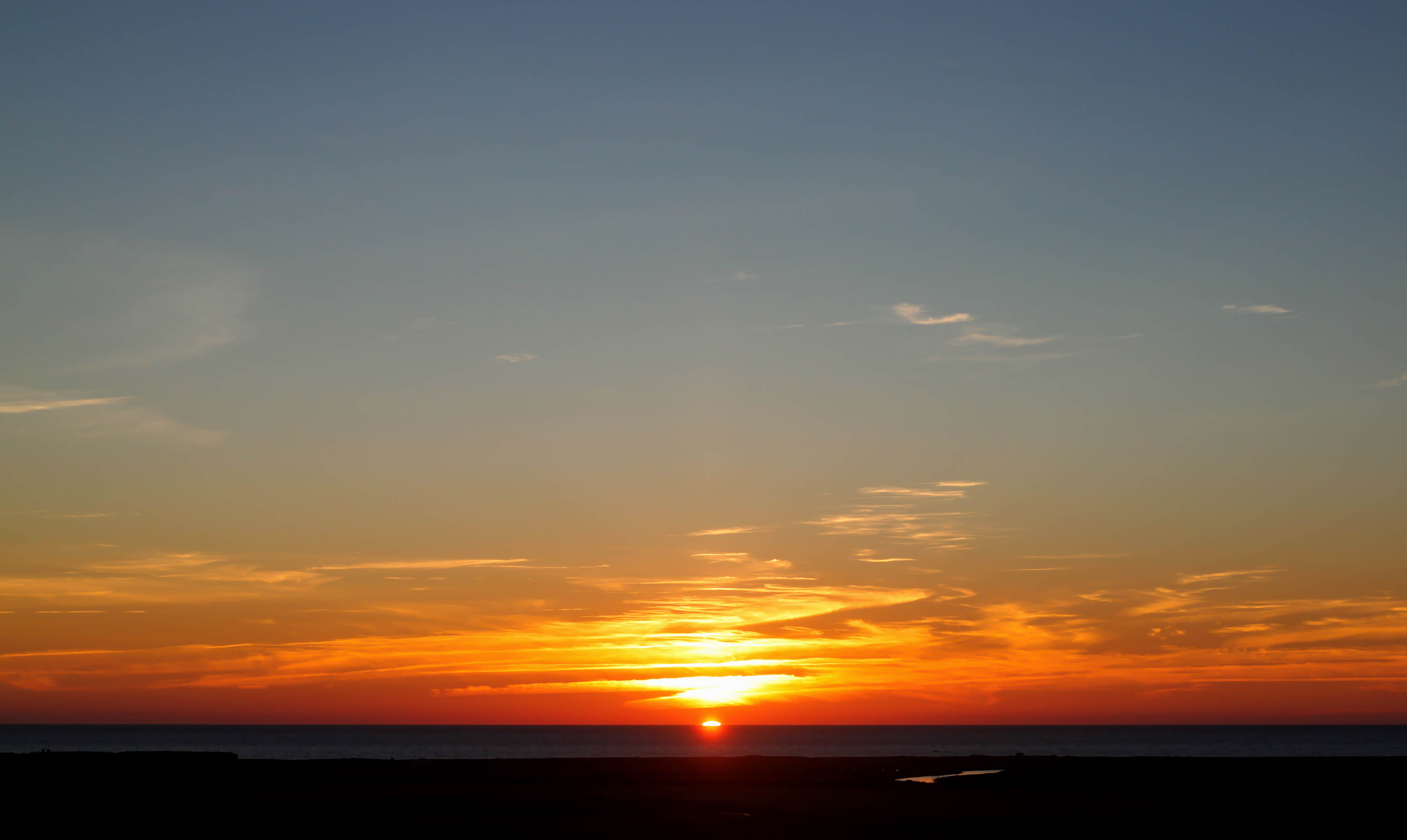 Achakar Beach Sunset. Tangier, Morocco